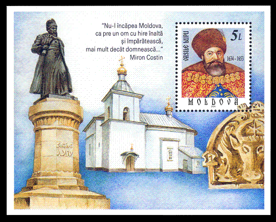 Stamp of Moldova